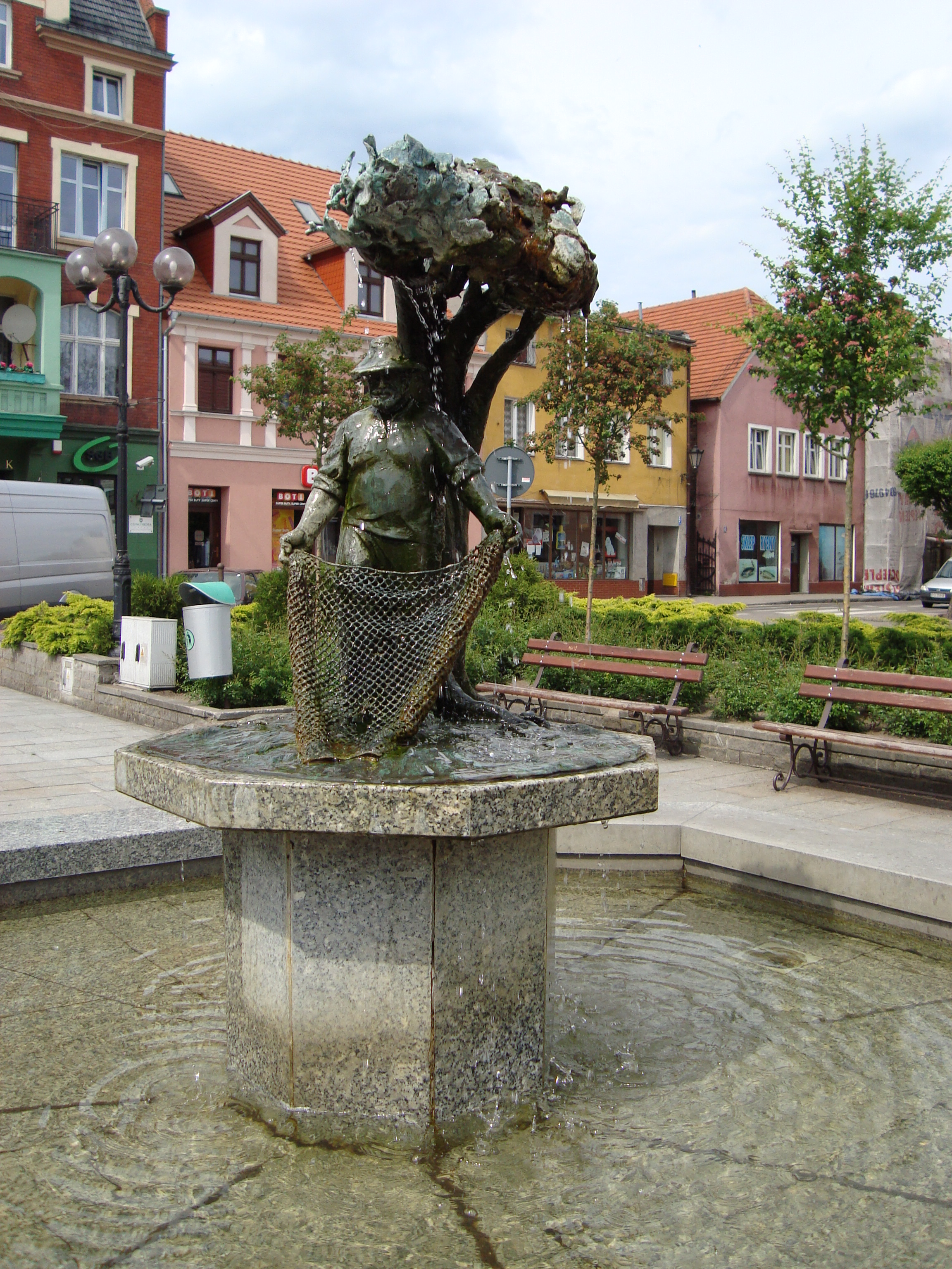 Market place in Międzychód